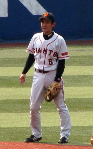 Makoto Kosaka, infielder of the Yomiuri Giants, at Yokohama Stadium.